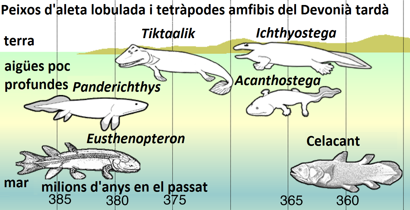 Late Devonian vertebrate speciation; descendants of pelagic lobe-finned fish including early tetrapods as well as other lobe-finned fish. incorporating images by others: *under GNU FDL licence: **Image:Finny original.svg **Image:AcanthostegaNewZICA.png **Image:PleaisaidesZICA.png *Public domain: **Image:Eusthenopteron.gif **Image:Coelacanth.png Spreadsheet chart and gradient done with Appleworks, images composited and text added in Photoshop Elements, on a 2001 iBook (G3 466). Contact me at user talk:dave souza to request any changes.